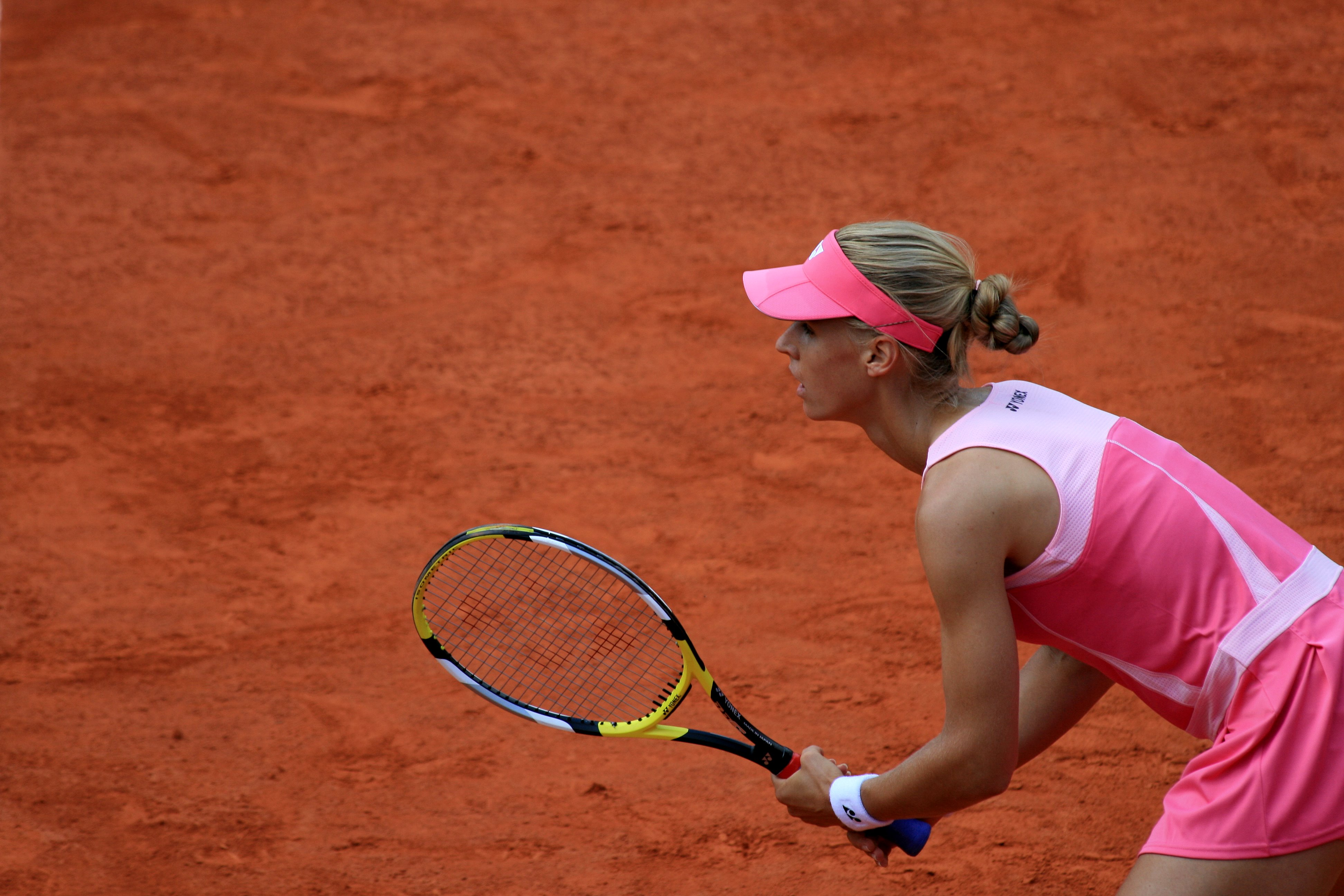 Elena Dementieva at the final of 2008 Qatar Telecom German Open